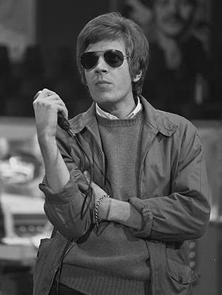 Singer Scott Walker recording for Dutch TV programme Fenklup, 7 June 1968 (broadcast 5 July 1968). Girl in the background: presenter Sonja Barend.